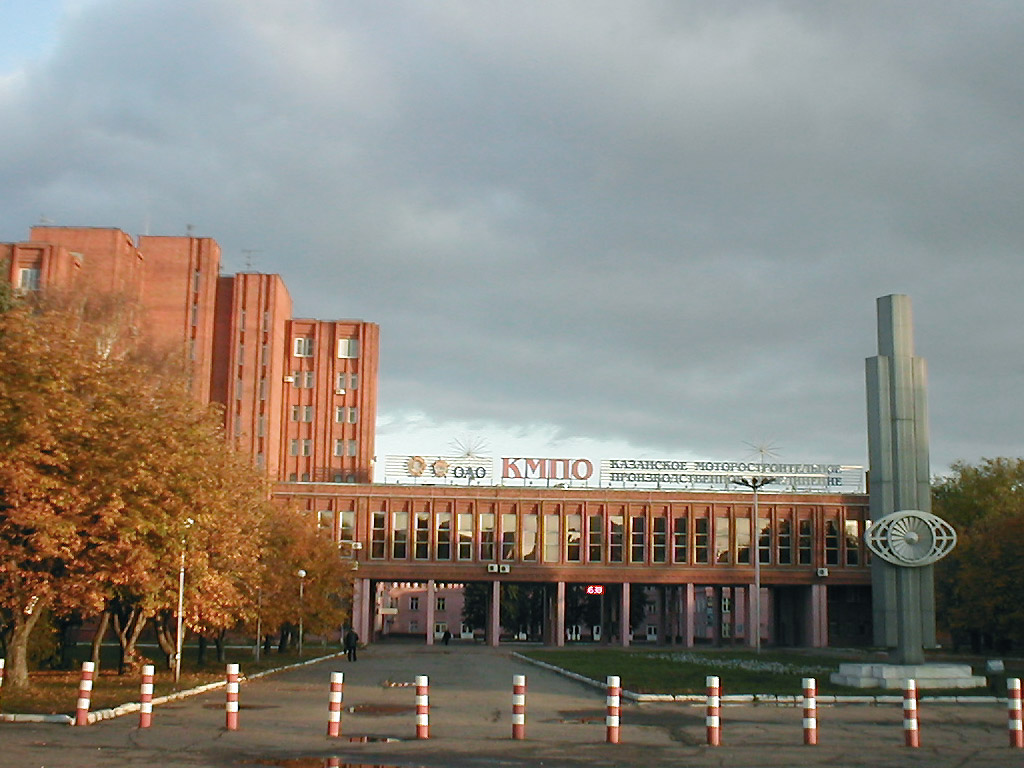 KMPO motor building enterprise on Motorbuilders square in Kazan, main entrance